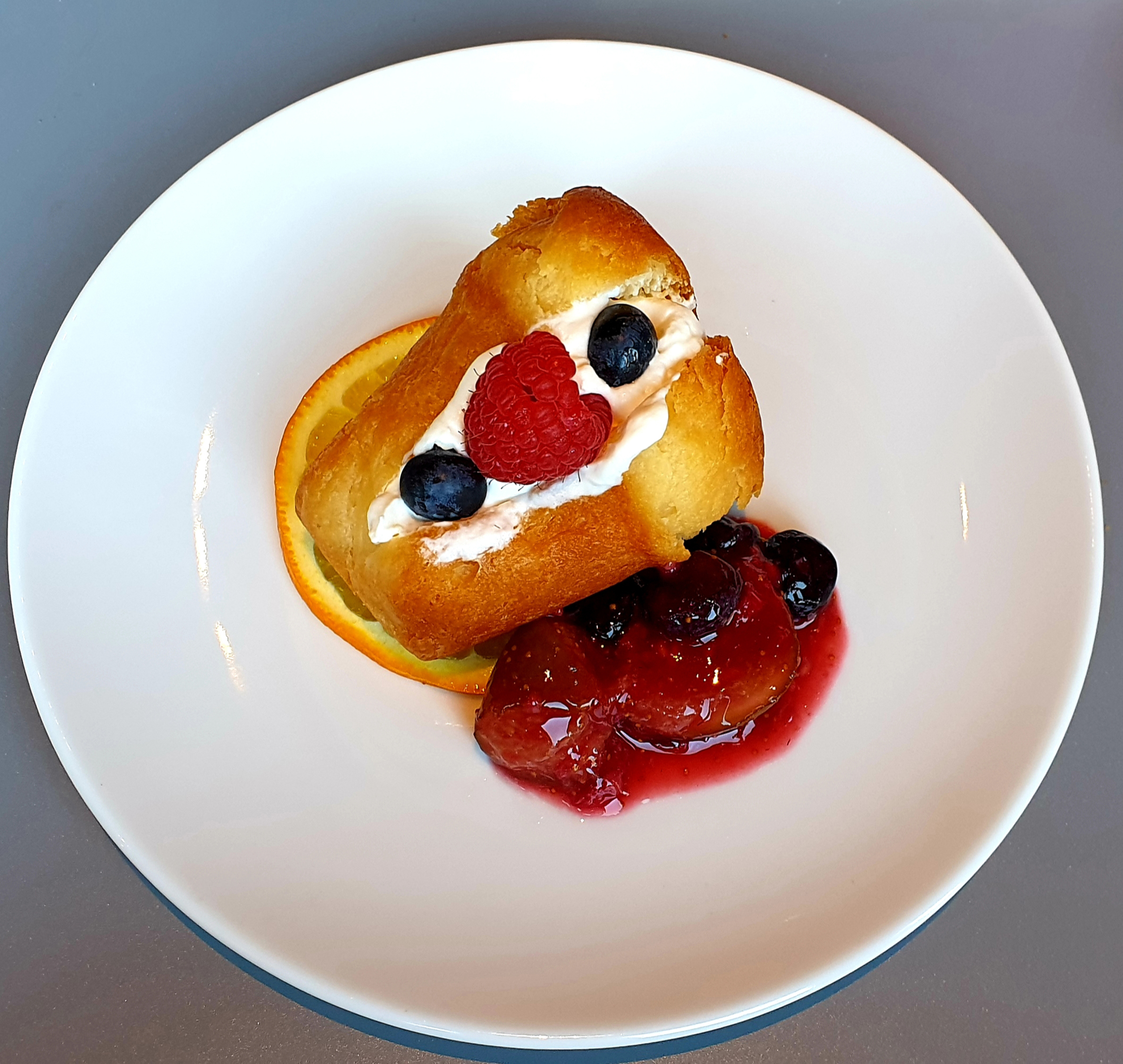 The dessert "Rum Baba" at Nuo Hotel, Beijing, PR China